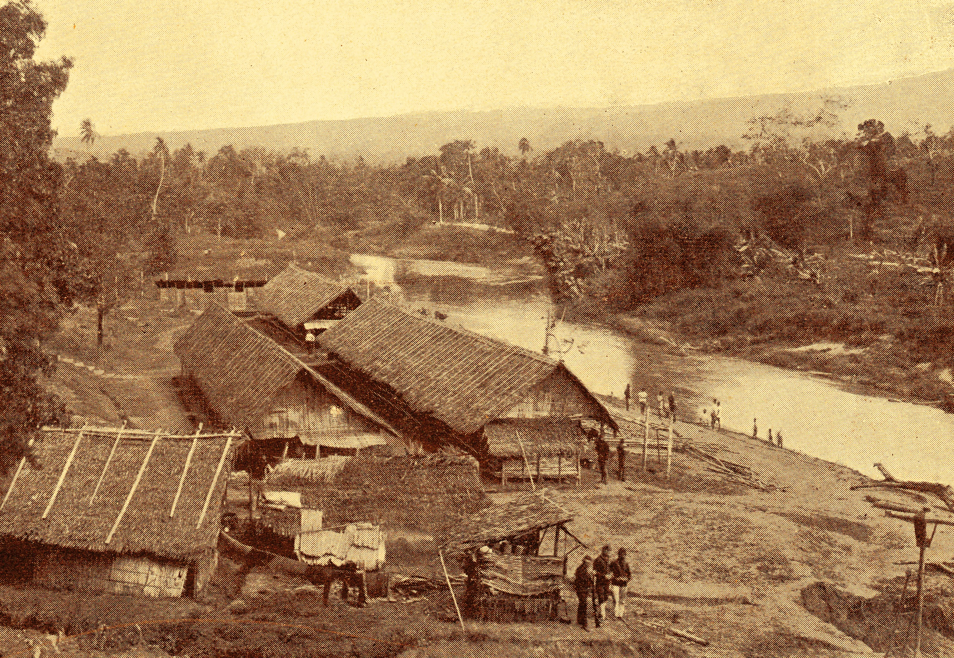 Het bivak van de artillerie en cavalerie